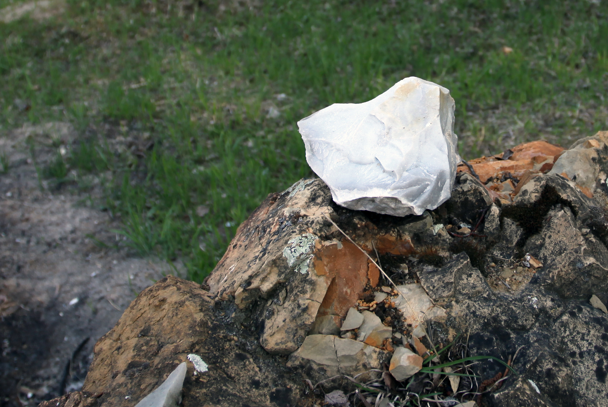 White Quartzite from Písečný vrch in Most district, Czech Republic